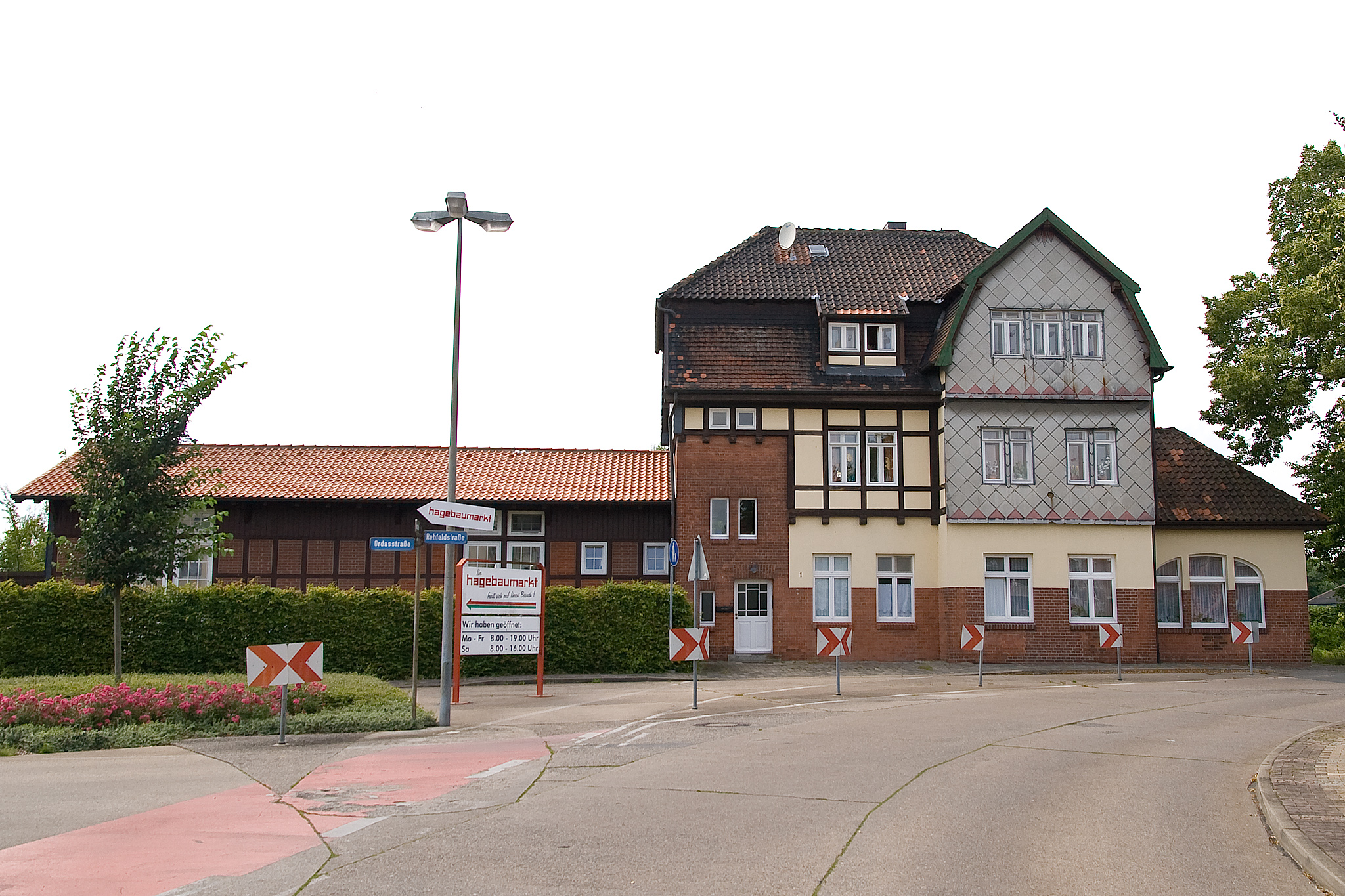 Dannenberg West station. The building is used for living today.